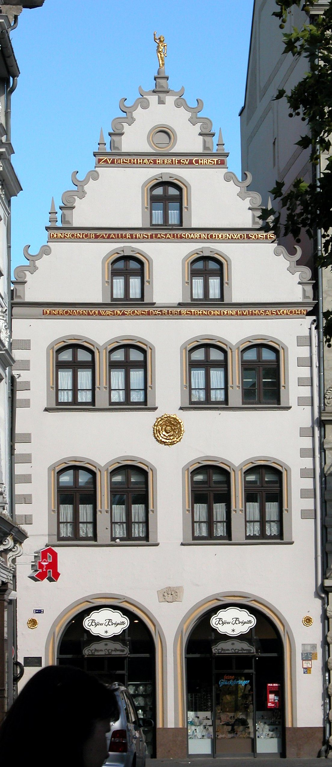 Braunschweig, Germany: “Rose House” on the Coal Market.